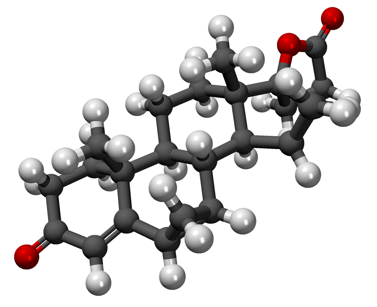 Ball-and-stick model of the Drospirenone molecule C24H30O3. Model constructed using ACD/ChemSketch and Accelrys DS Visualizer.